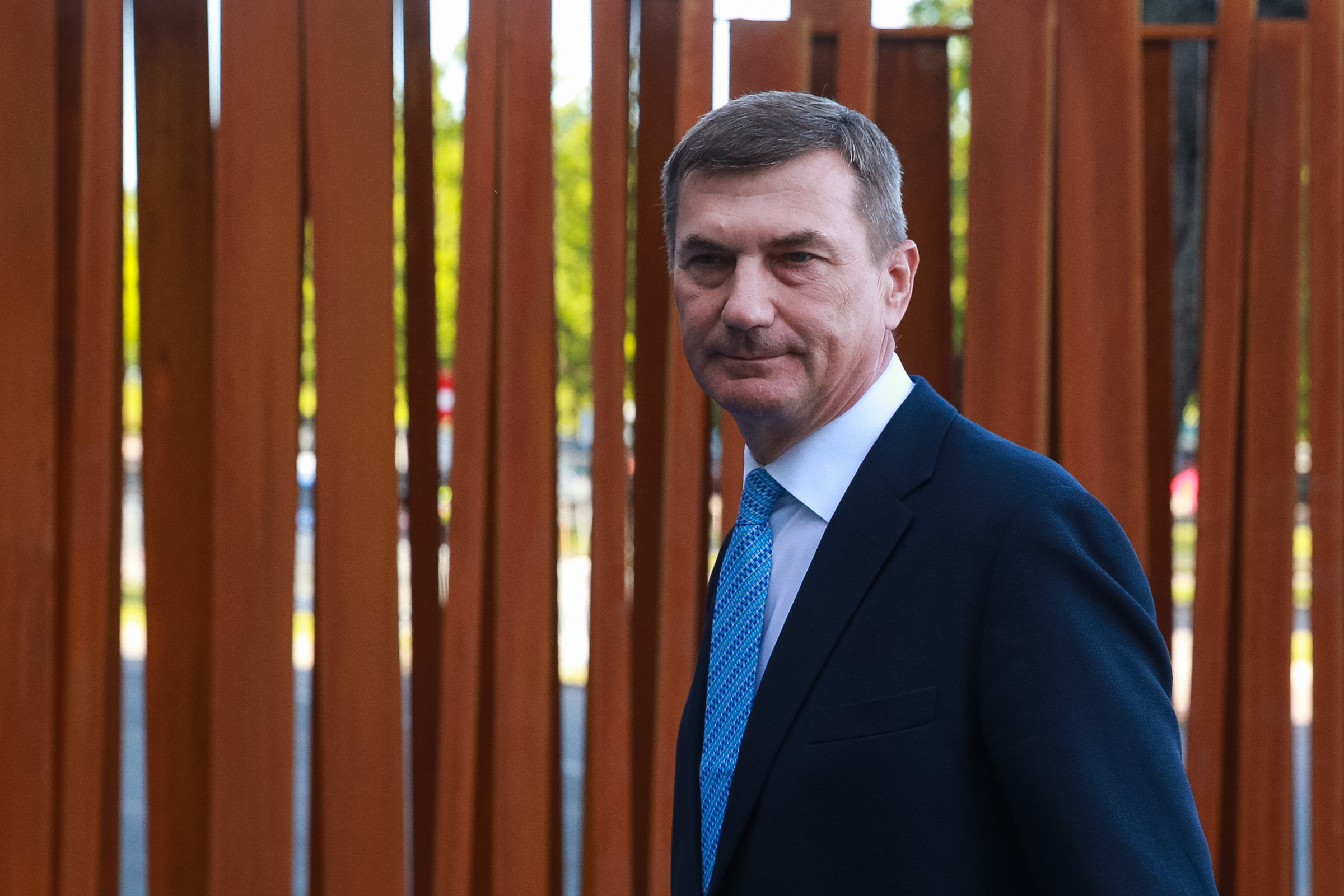 Commissioner Andrus Ansip. Opening concert